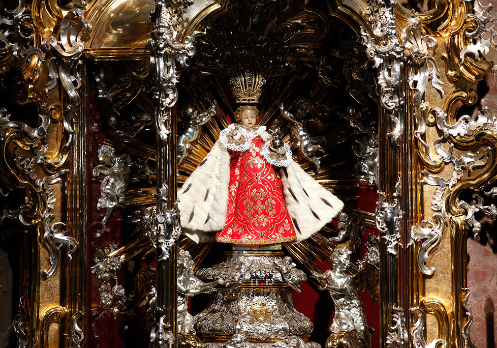 The original statue 19-inch (48 cm) high, wooden and coated wax statue of the Infant Jesus of Prague given by Princess Polyxena von Lobkowicz (1566–1642) to the Discalced Carmelites in 1628